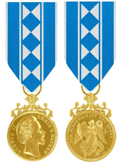 Ludwigsmedaille Bavaria 1872